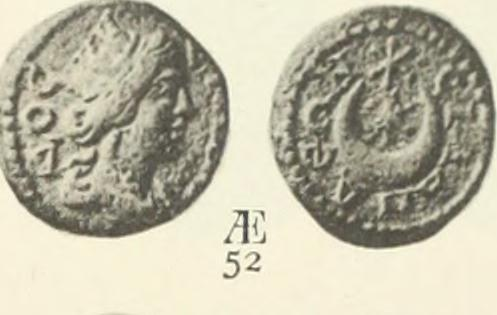 Coin from Silandus. Obverse: CΙΛΑΝ ΔΟC-Bust of city goddess r., turreted; border of dots Reverse: CΙΛΑΝΔΕΩΝ-Star of six rays within crescent; above, another star of six rays; border dots. Era: Septimus Sevirus or Caracalla Identifier: numismatagraecag46anso Title: Numismata graeca; Greek coin-types, classified for immediate identification Year: 1910 (1910s) Authors: Anson, Leo Subjects: Numismatics, Greek Publisher: London, L. Anson